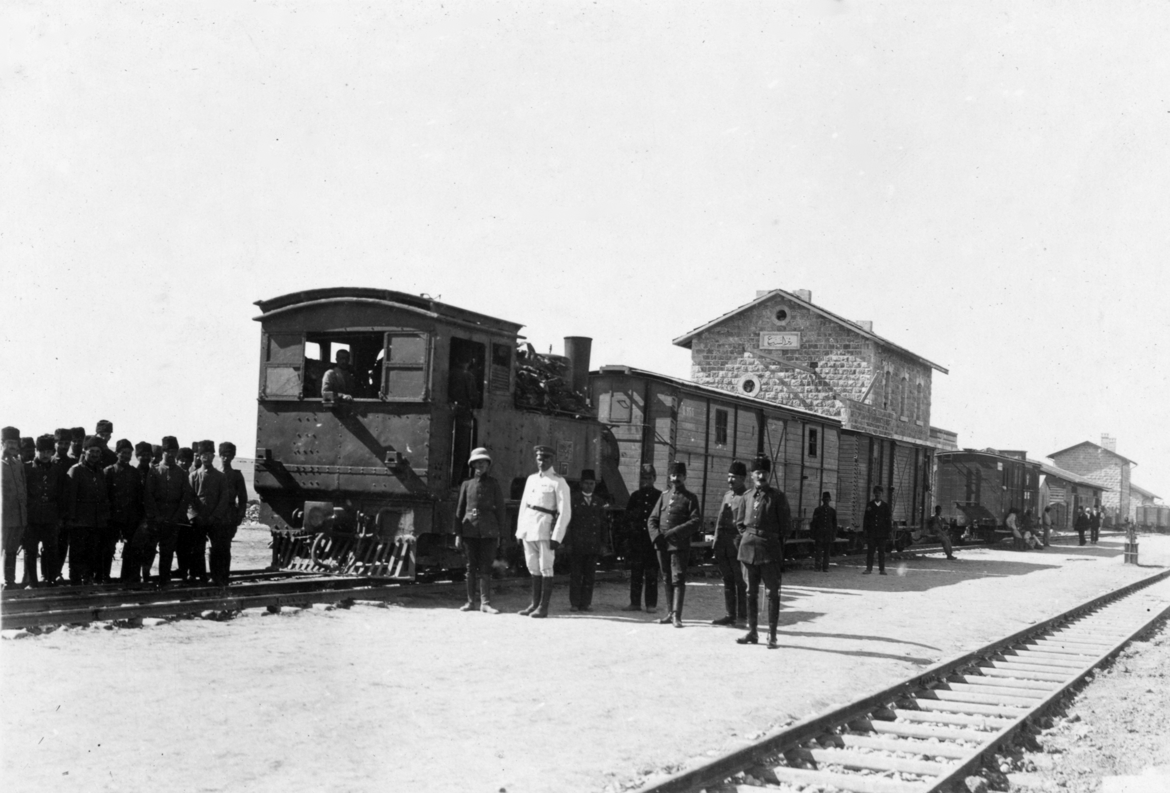 Railroad Station in Beer Sheva, 1917.